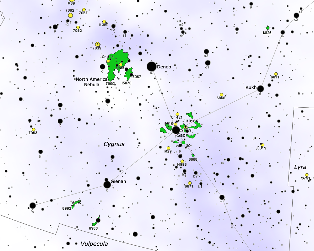 Map of Cygnus giant molecular cloud.